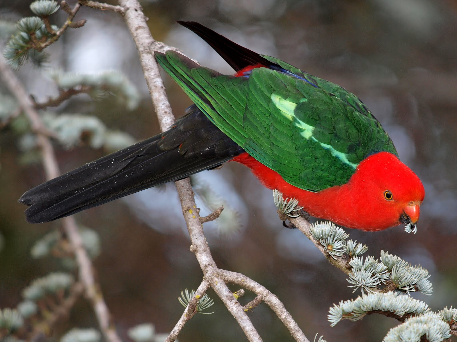 A male Australian King Parrot at Commonwealth Park, Canberra, Australia.